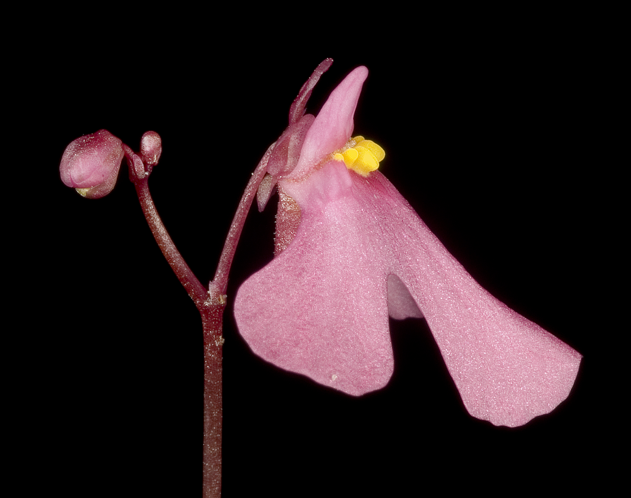 KL Brown 674